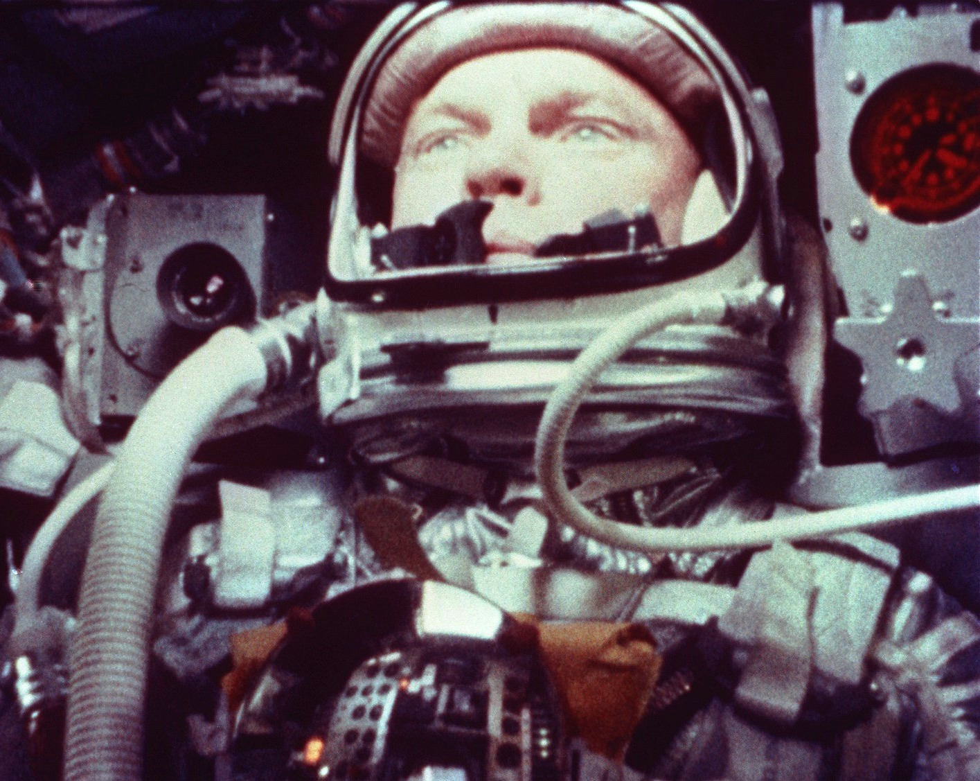 Derived from File:Glenn62.jpg